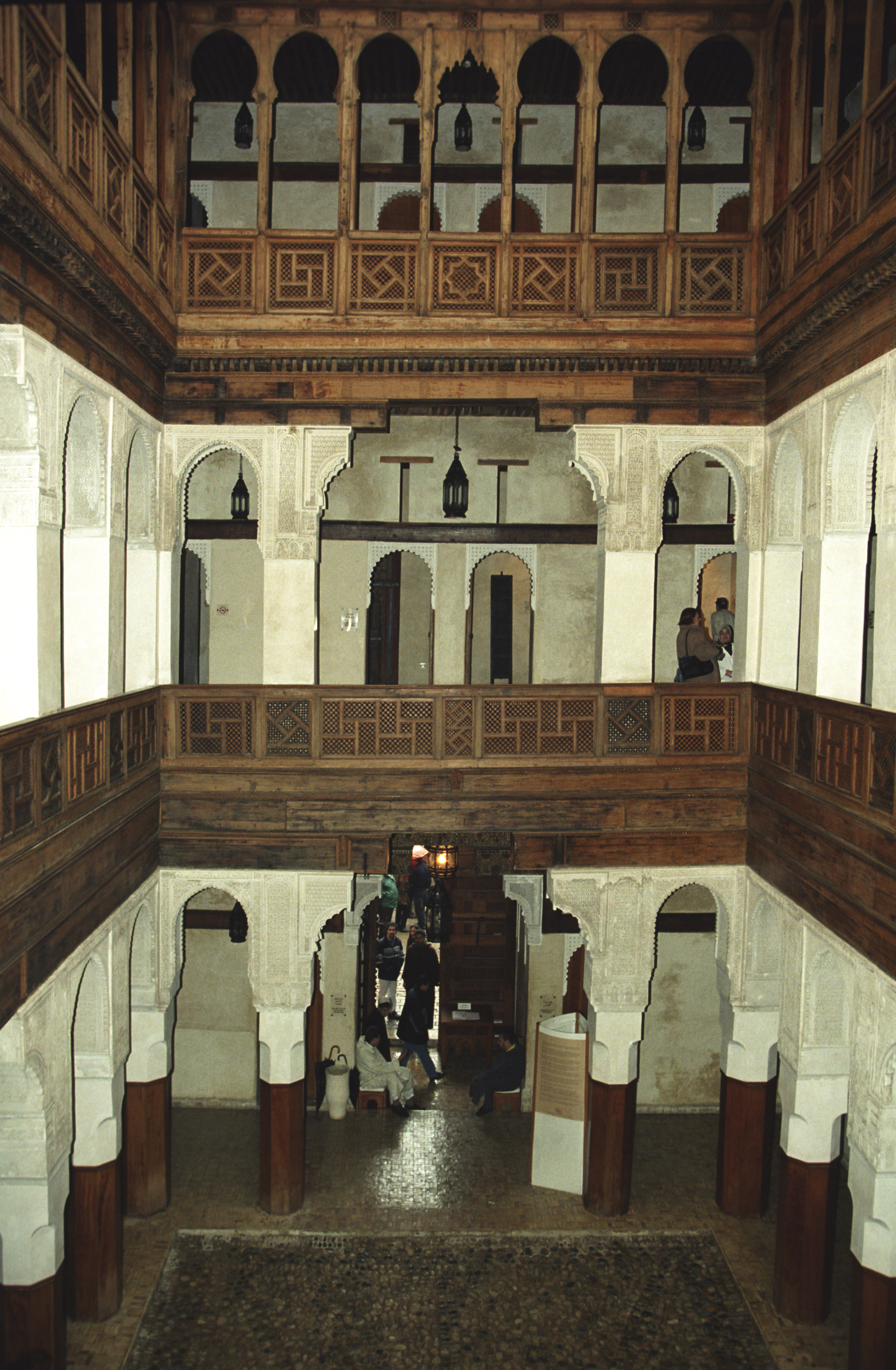 Fes. Medina Fes el Bali. The old caravanserai